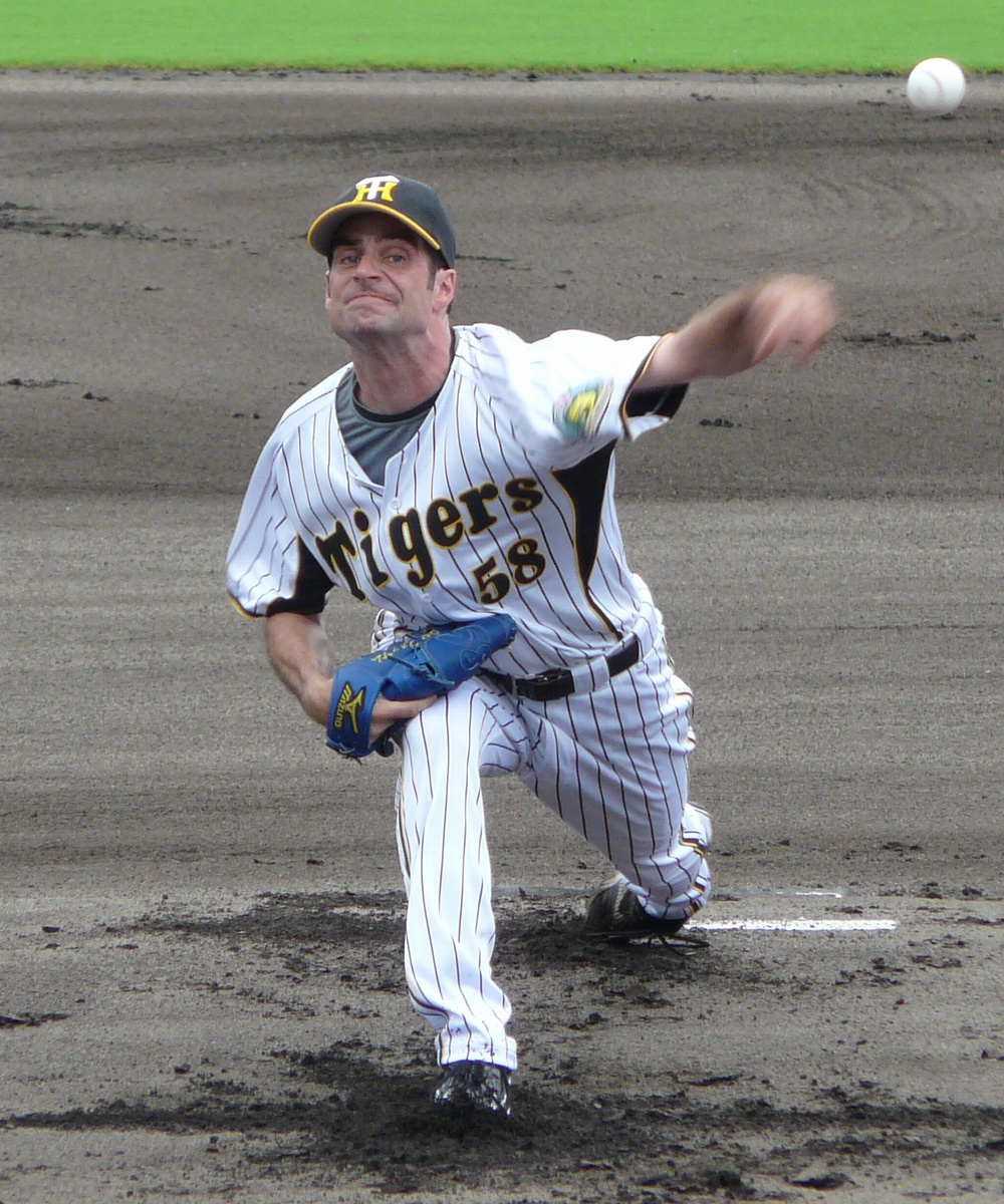 Casey Fossum, pitcher of the Hanshin Tigers, at Hanshin Naruohama Baseball Ground.